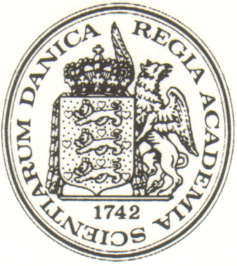 Seal of the Royal Danish Academy of Sciences and Letters